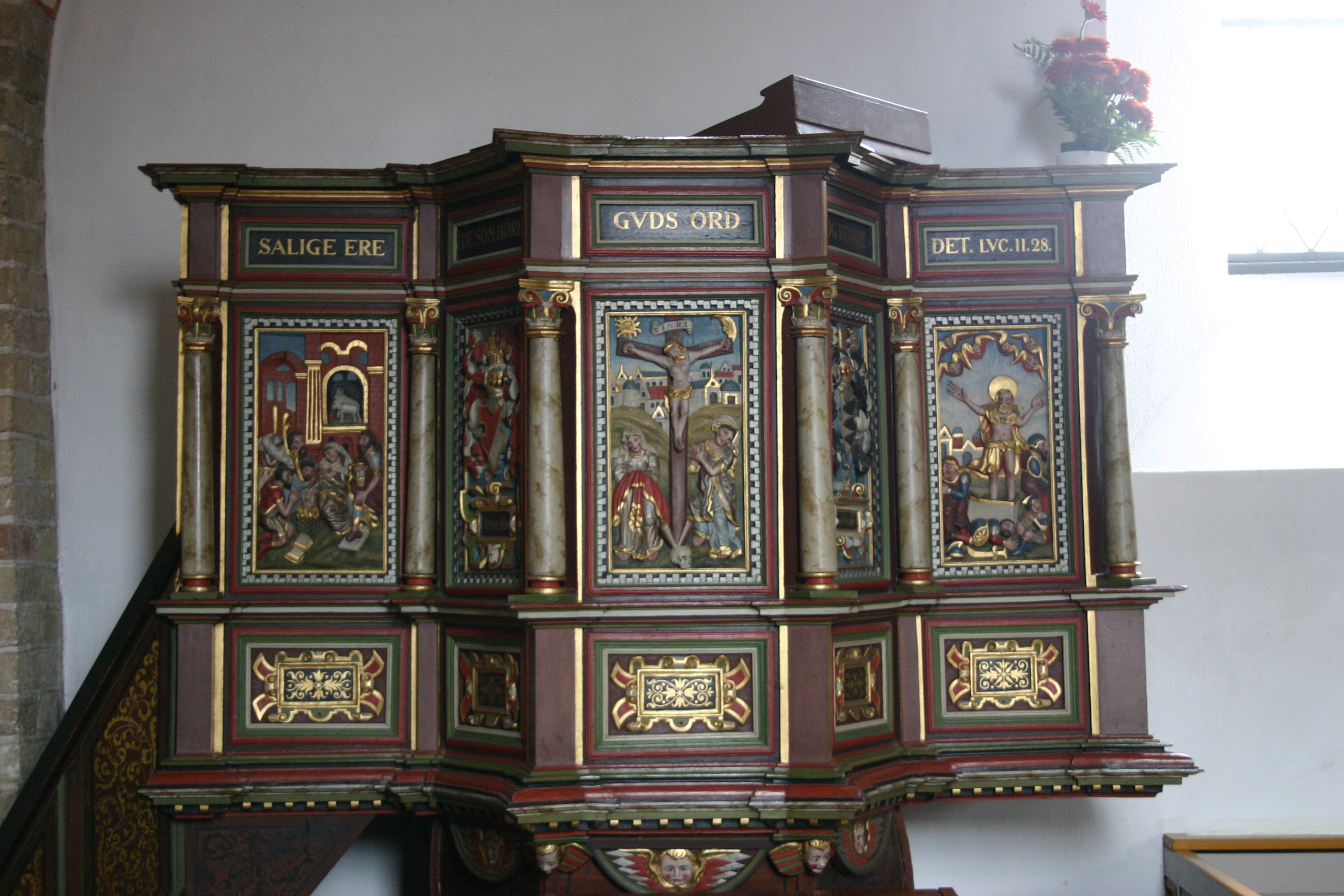 Pulpit in Sulsted Church